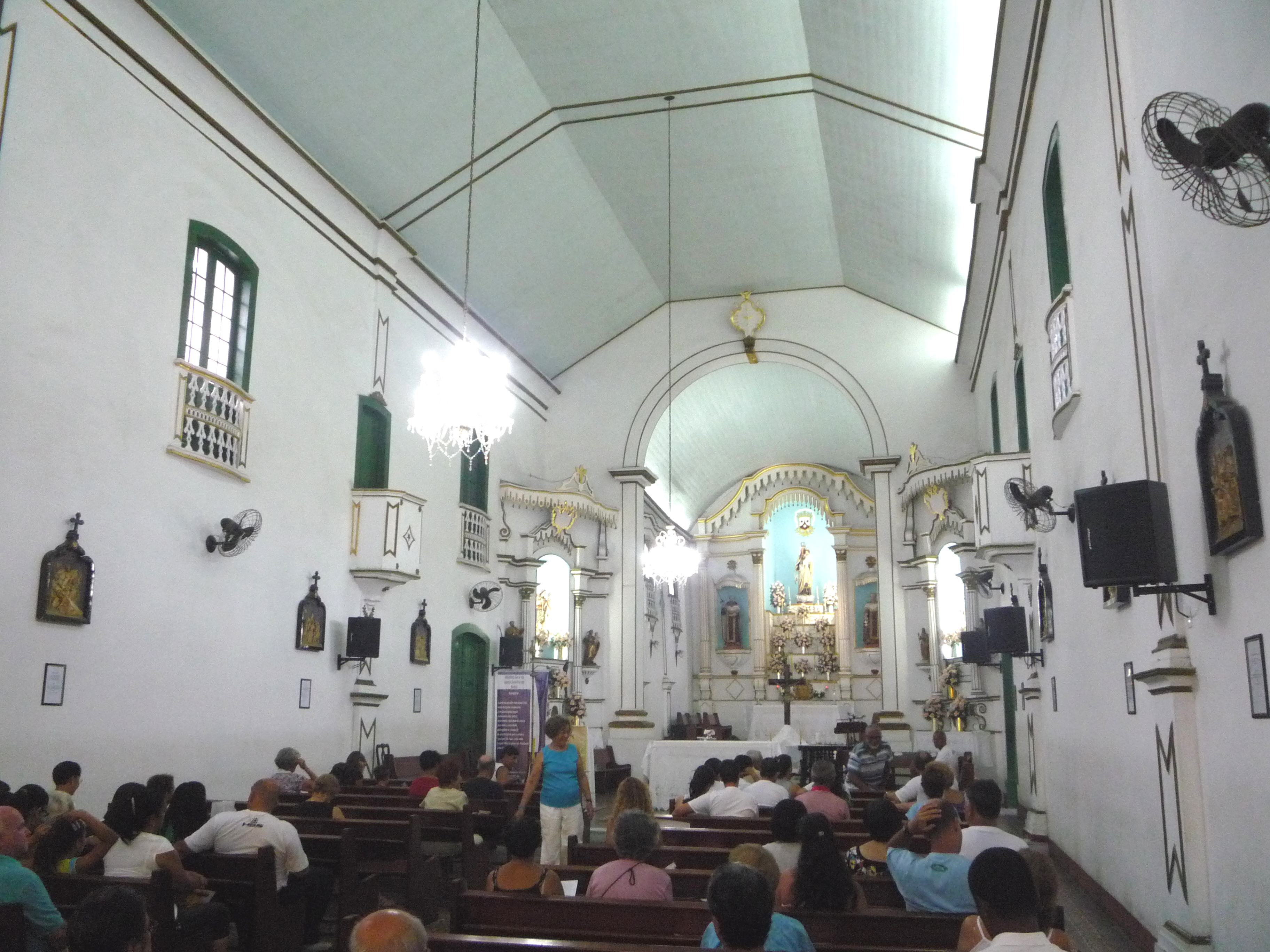 Interior of Carmo Church of Angra dos Reis, Brazil